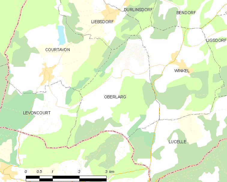 Map of French municipality